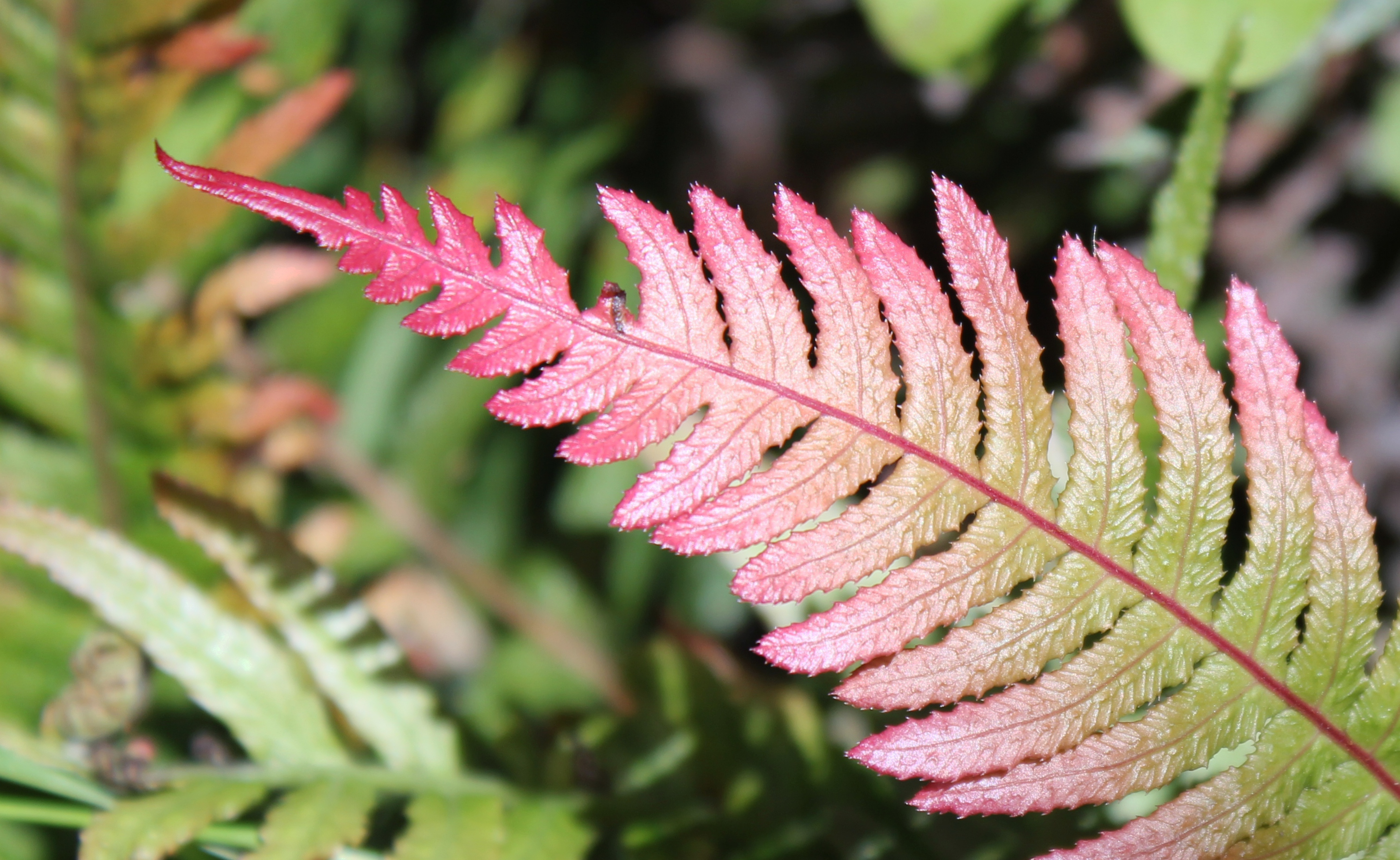 The tip of this rasp fern frond (Doodia media) displays the pink colour characteristic of young fronds in this species. The colouration is caused by a flavonoid that protects the plant from ultraviolet radiation. Photo taken on Tiritiri Matangi Island, near Auckland, New Zealand.